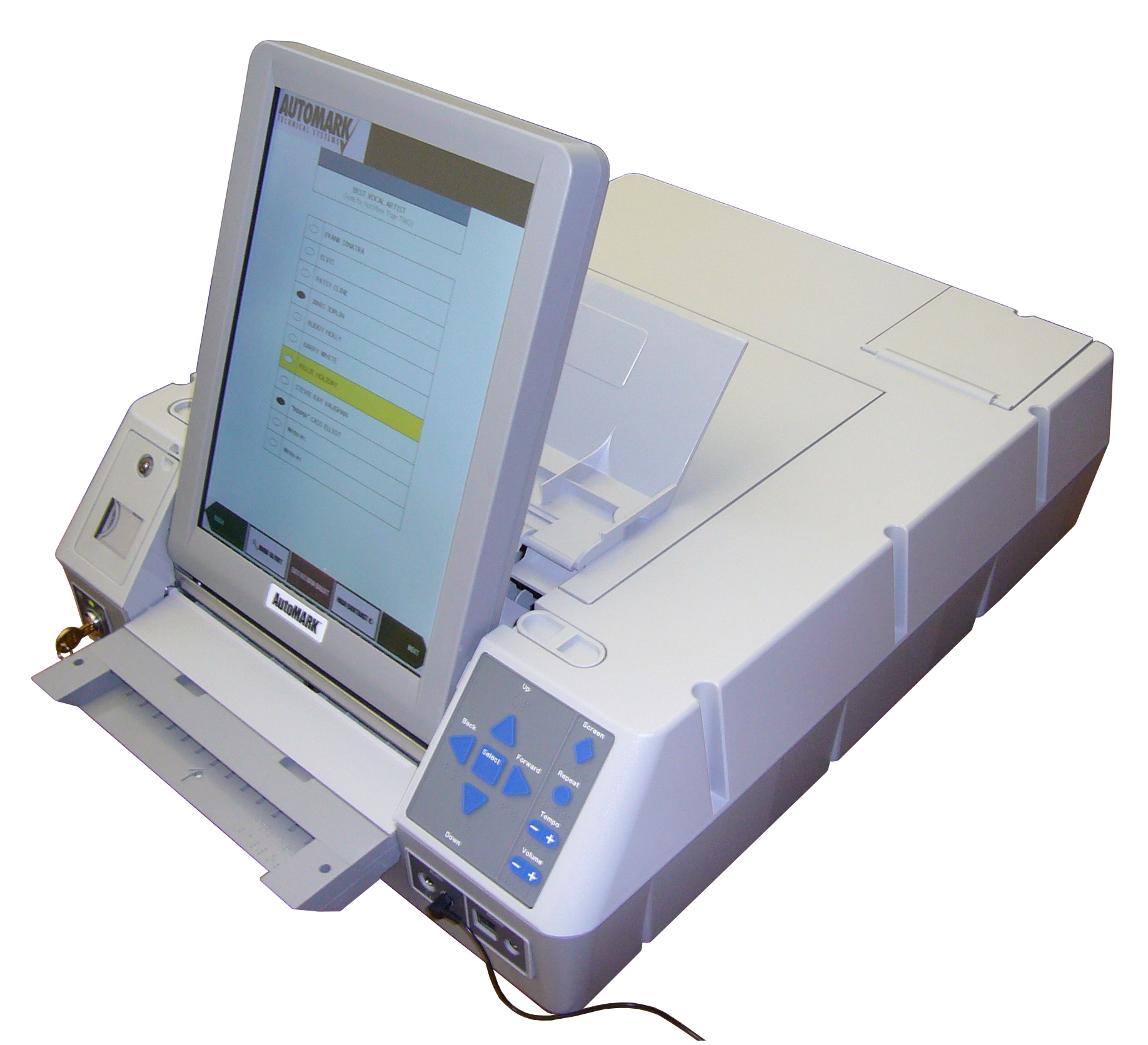 An AutoMARK ballot marking device, made by Automark Technical Systems LLC, a division of Election Systems & Software since 2008. Voters insert a full sized optical scan ballot in the front and then vote on the touch screen or with assistive devices such as the tactile keyboard in the lower right. The AutoMark prints vote marks on the ballot and returns the voted ballot to the voter for deposit in a ballot box or ballot scanner.